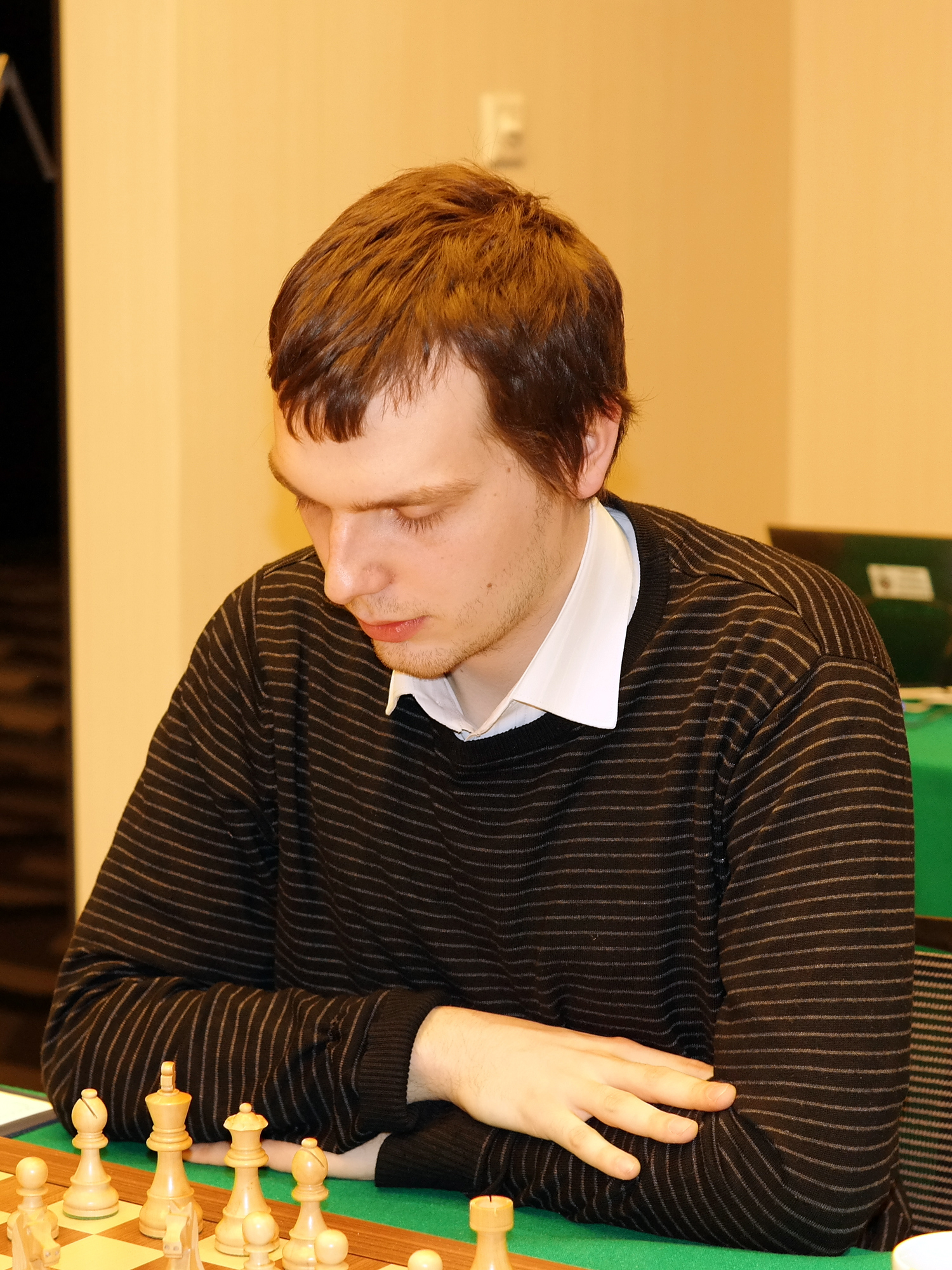 GM Kacper Piorun, Polish Chess Championship, Warsaw 2014